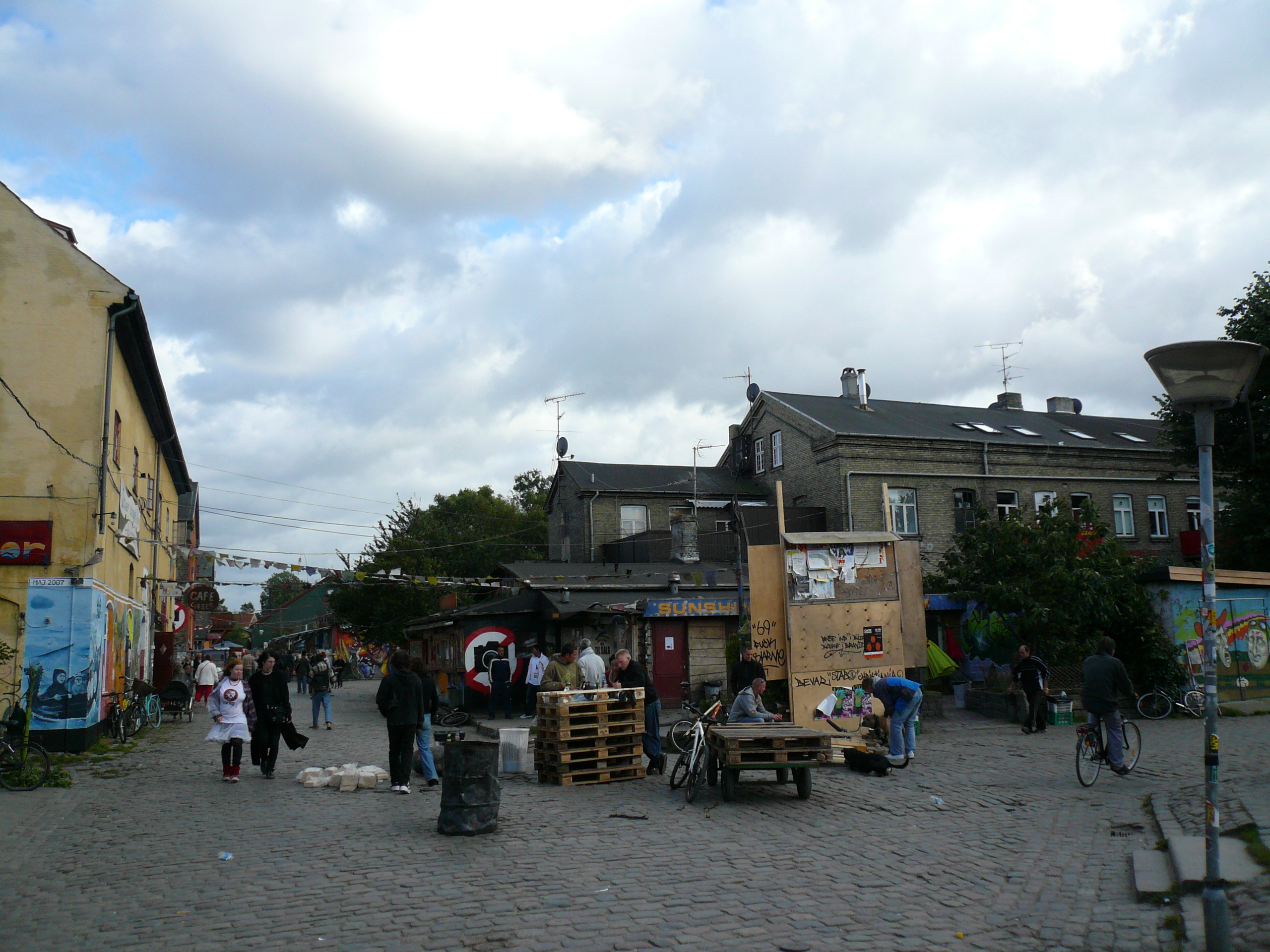 One of the main streets in Christiania, Copenhagen